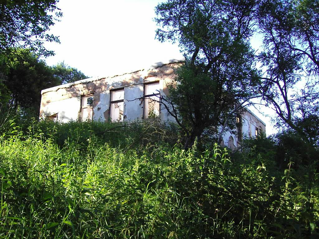 Ruins of school in the ruined village Derenk, Hungary.